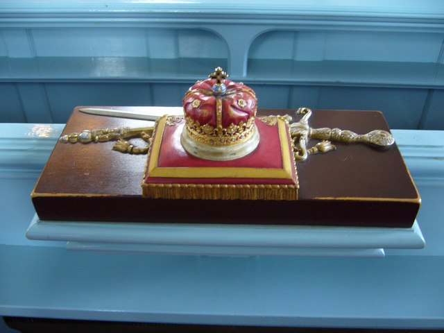 Sovereign's pew, Canongate Kirk The Queen is the Head of the Church of England, but, like other worshippers, a mere member of the Kirk when in Scotland. She occupies this pew when visiting her local church during annual residences at Holyrood Palace. Relations between the Presbyterian Kirk and the Sovereign have been stormy in the past to the point of war. John Knox's successor, Andrew Melville, summed up the relationship when he tried to put King James VI in his place. He grabbed him by the sleeve, saying, "Sir, as divers tymes befor, sa now again, I maun tell ye, ye are God's sillie vassal; thair are twa kings and twa kingdomes in Scotland: thair is King James, the heid of the commonweal; and thair is Chryst Jesus, and his kingdome the Kirk, whase subject James the Saxt is, and of whase kingdom nocht a king, nor a lord, nor a heid, but a member." Hardly surprising, then, that James was glad to get out of Scotland when he succeeded Elizabeth I of England to become the first sovereign of the United Kingdom.